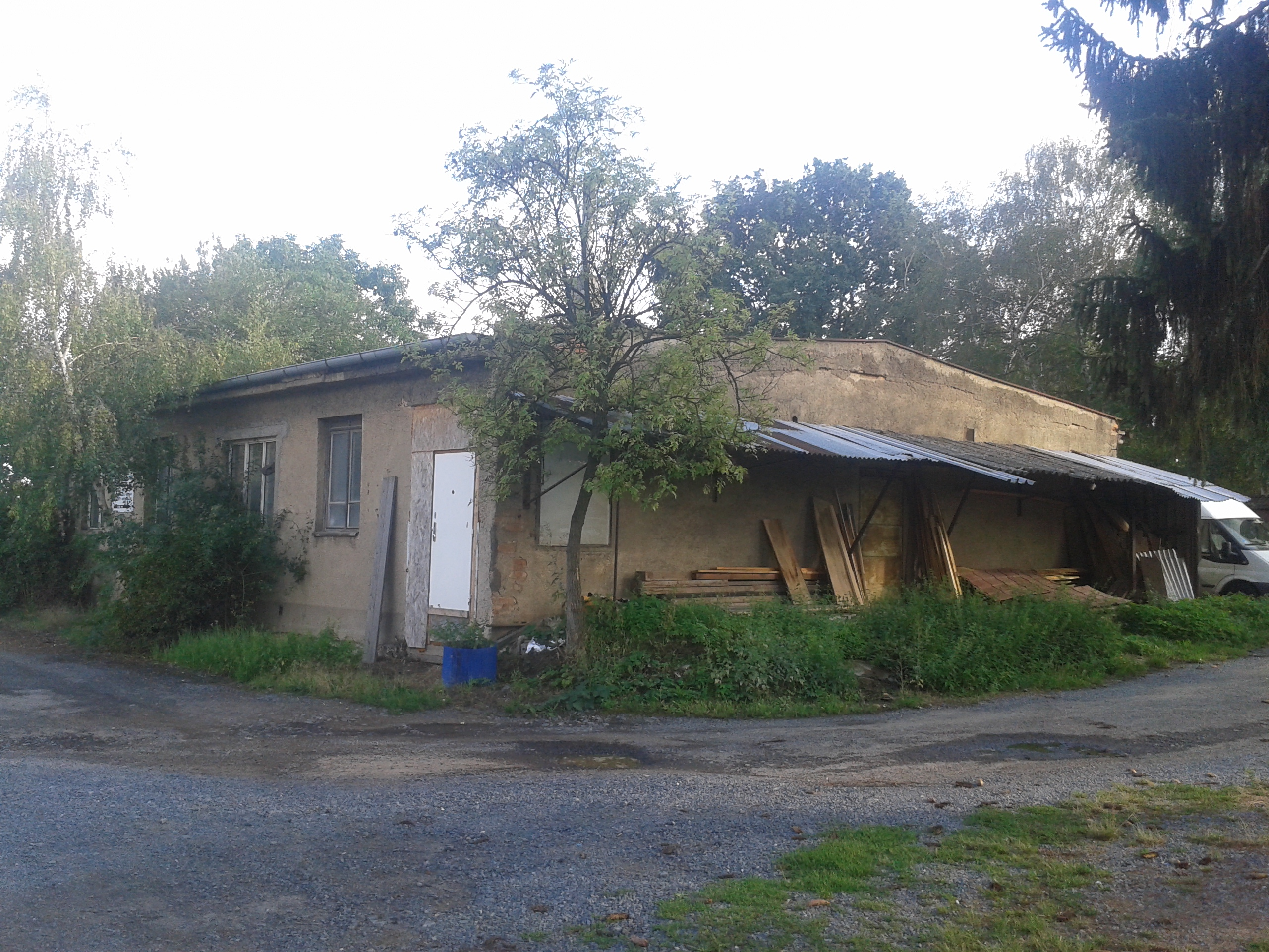 Building from 1958, originally dining block of firing position of anti-aircraft artillery battery Točná.